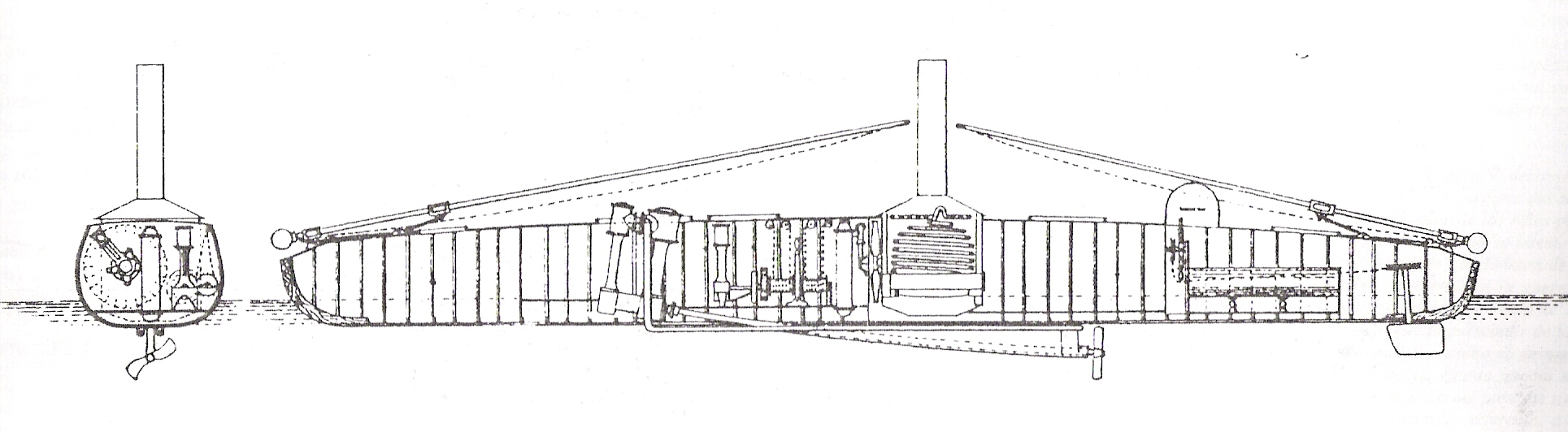 A draw of a Peruvian torpedo boat built by Herreshoff & Co. in 1879. Peru bought 3 torpedo boats to Herreshoff by only two of them arrived Peru. The draws have the longitudinal section and plan